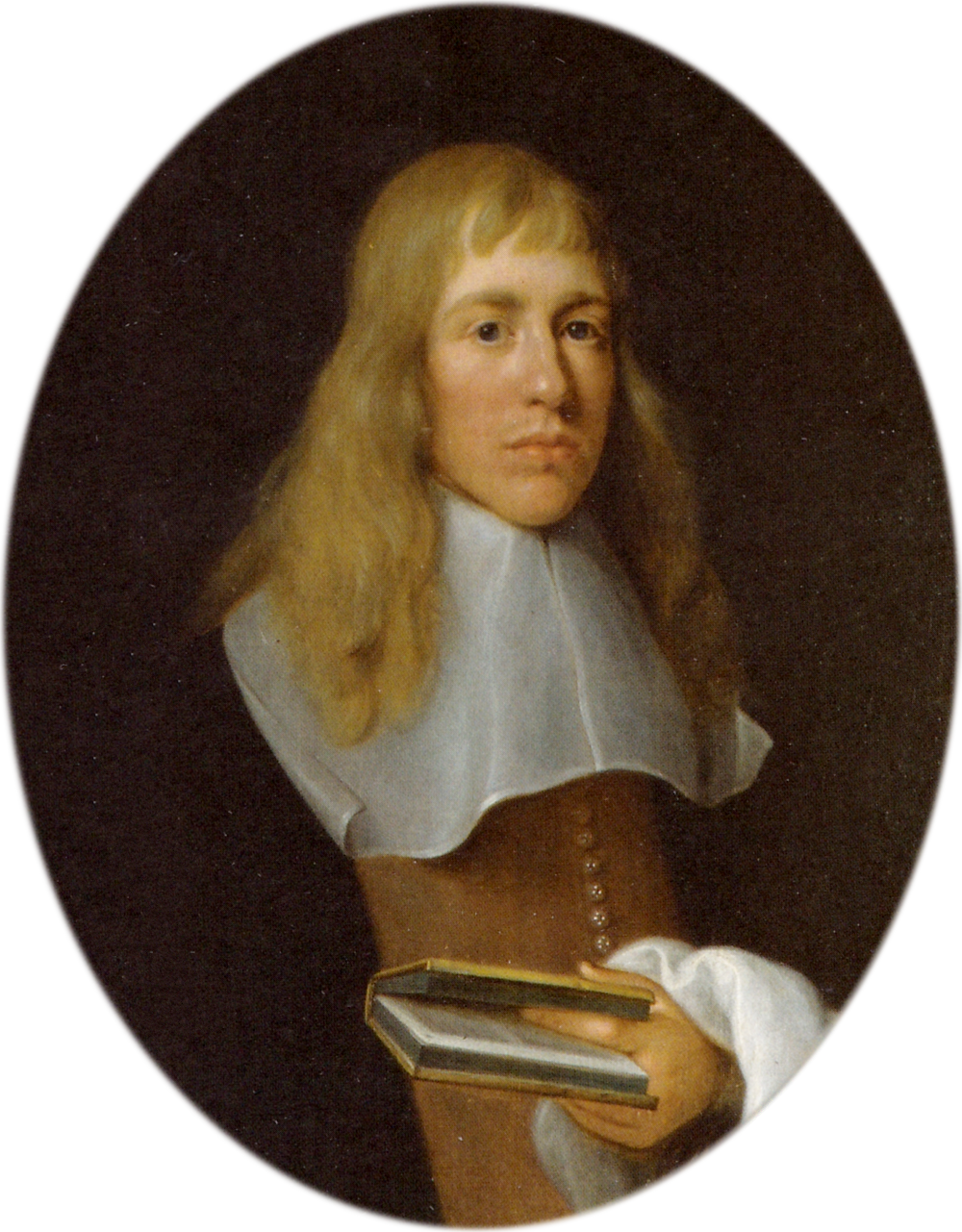 Painting of Francis Willughby by Gerard Soest between 1657 and 1660